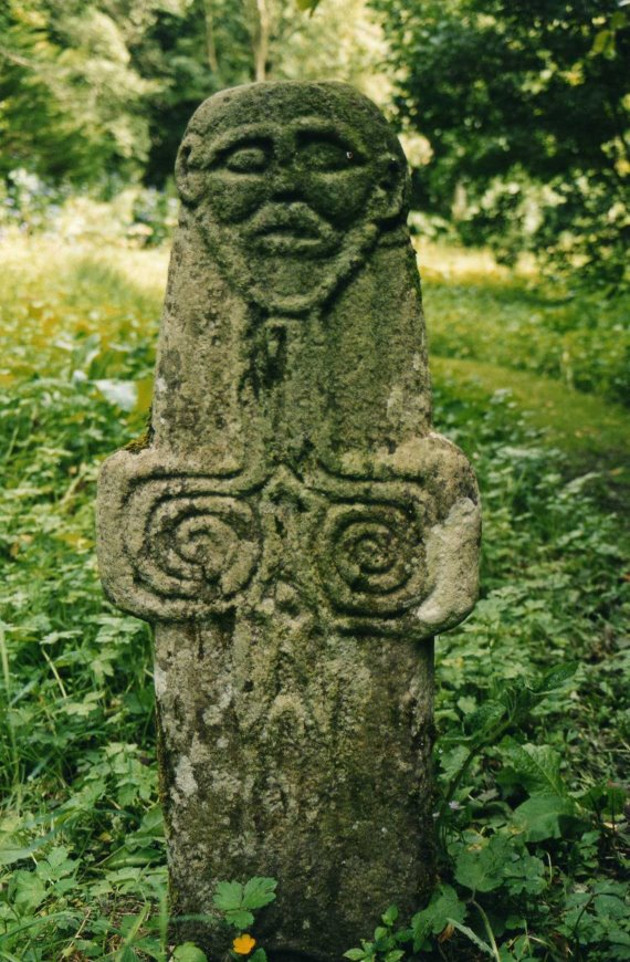 8th-century Riasg Buidhe Cross which stands in the grounds of Colonsay House.